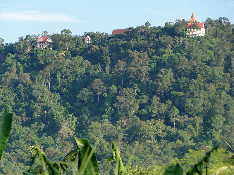 Wat Pha Tak Suea at the edge of the plateau in Si Chiang Mai